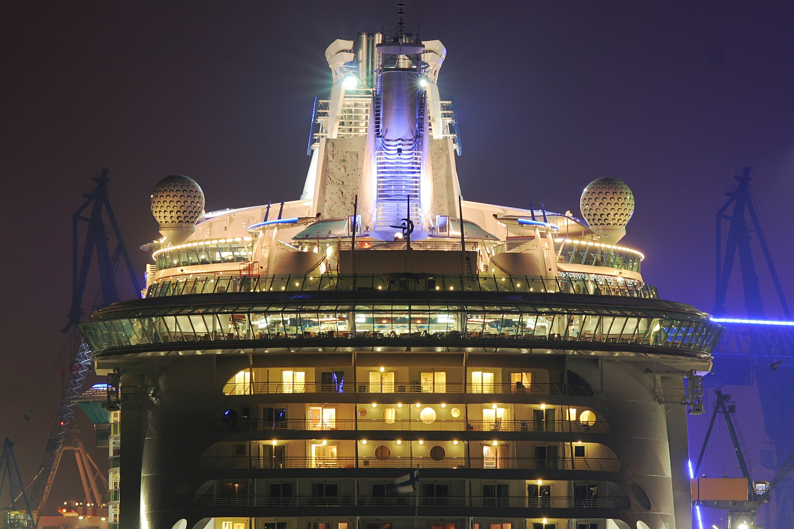 Freedom of the Seas, Hamburg, Blohm+Voss at Night